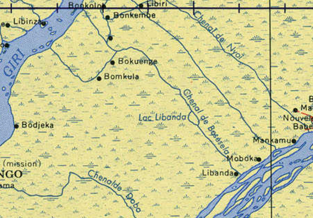 U.S. Army map of the Bosesera Channel (labelled as Chenal de Bosesela), on either side of Lake Libanda.